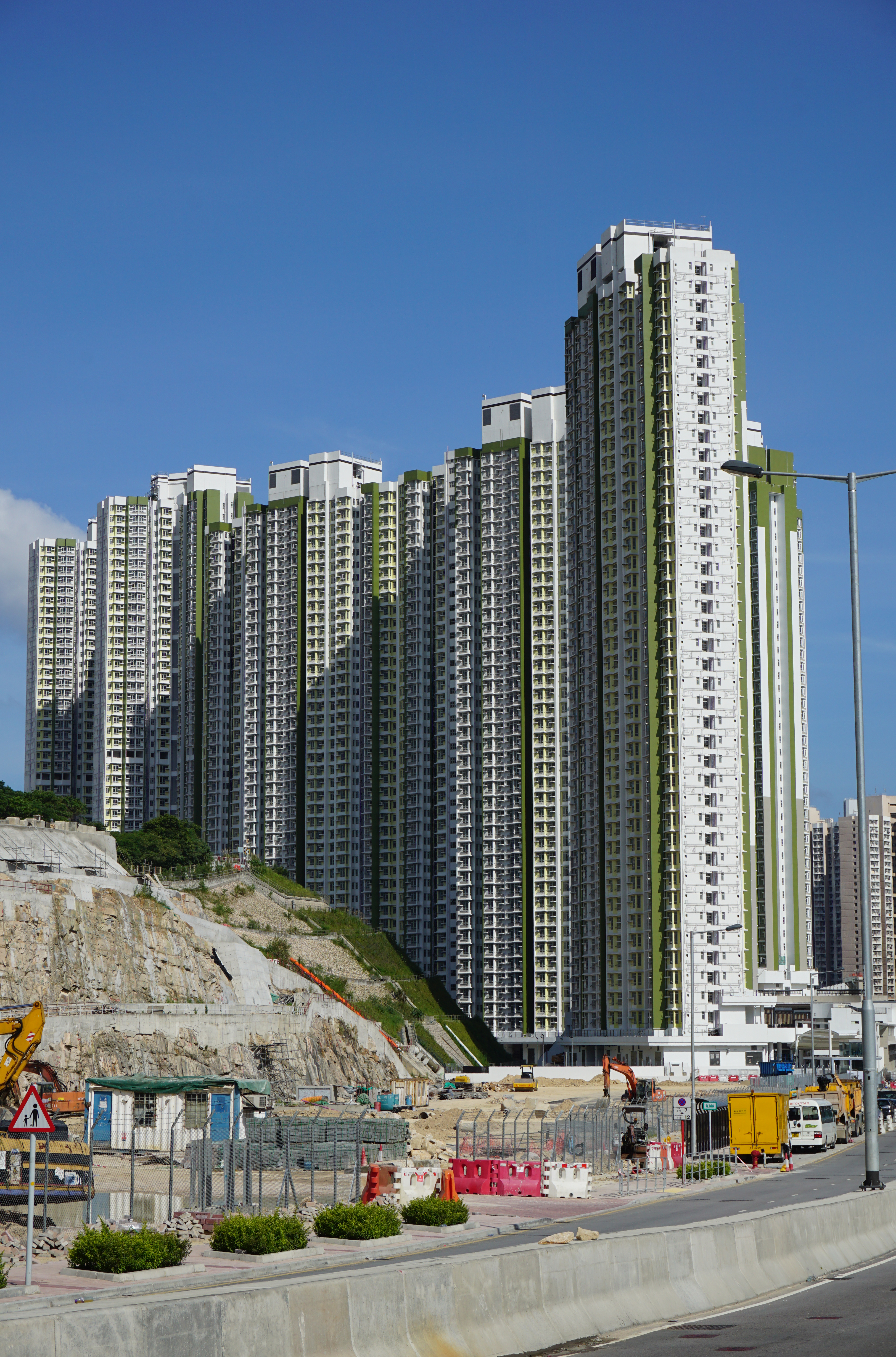 On Tat Estate in Kwun Tong, Hong Kong.